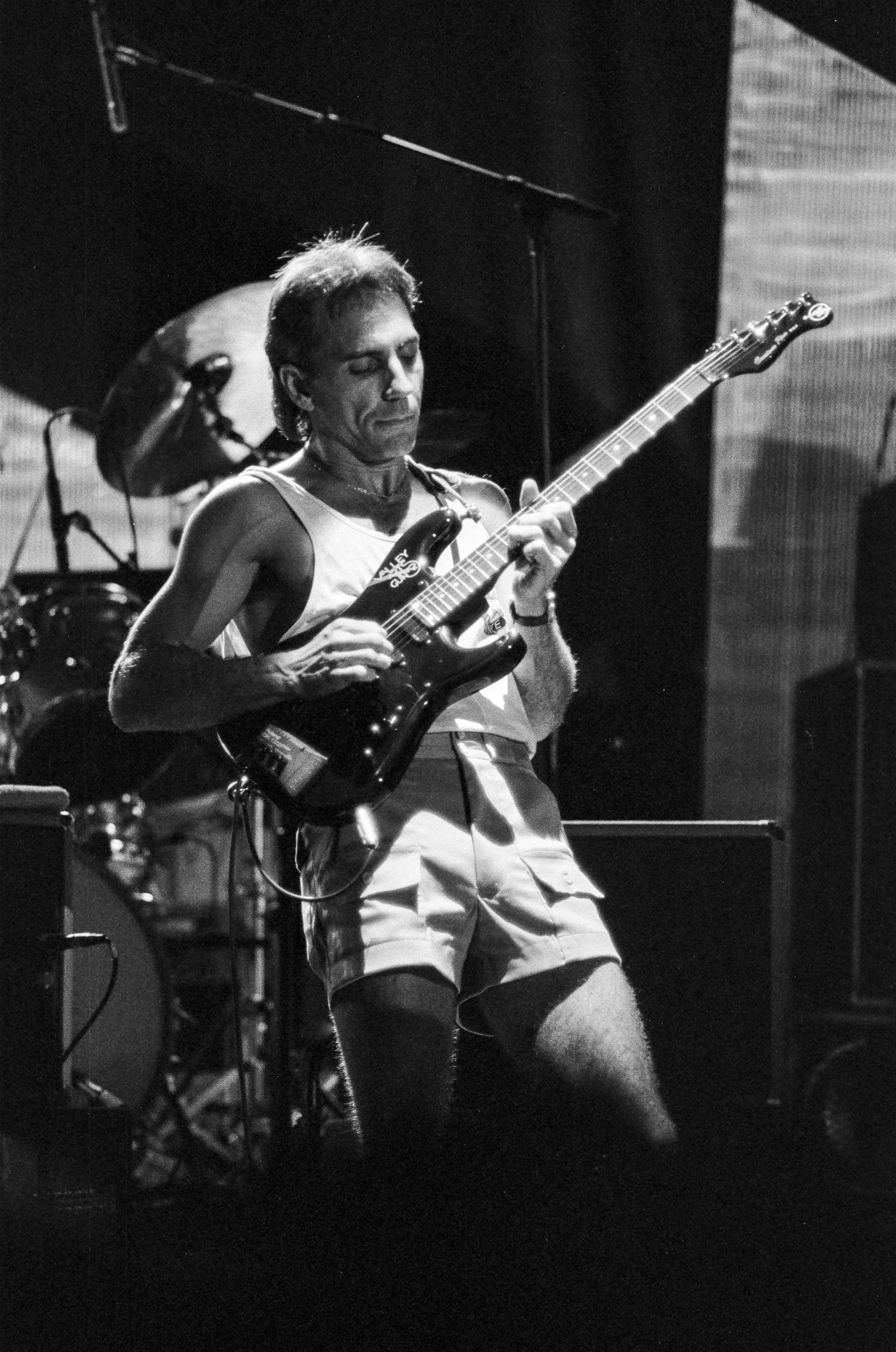 Larry Carlton & The Yellow Jackets, Bailey Hall, Cornell University, September 14, 1987.